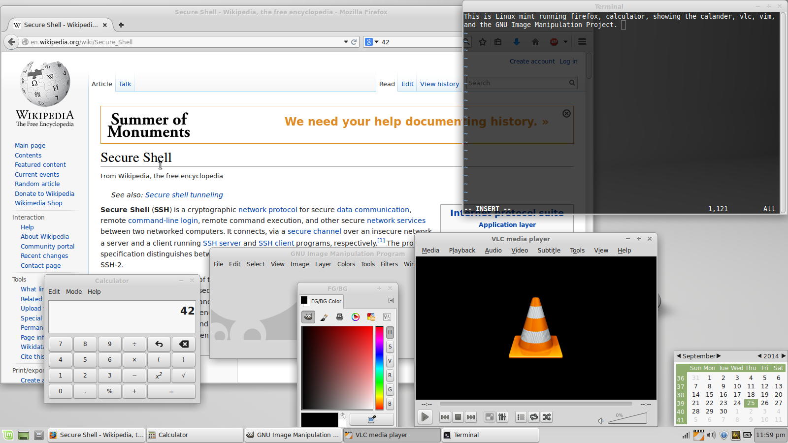 This computer is running Linux Mint (Ubuntu) Xfce desktop environment, VLC, GIMP, VIM, Calculator, Calendar and Firefox.